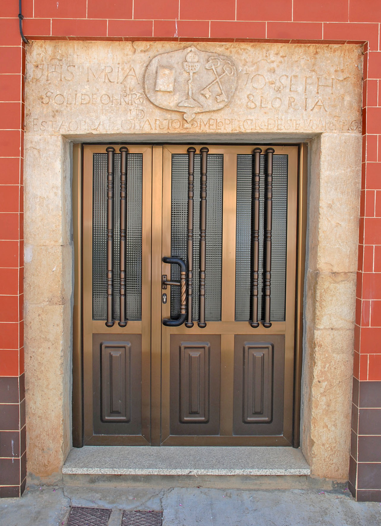 Báscones de Ojeda (Palencia, Castile and León).